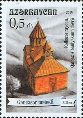 Stamps of Azerbaijan, 2014